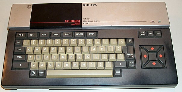 MSX Philips VG-8020 home computer. Picture taken by SanderK.